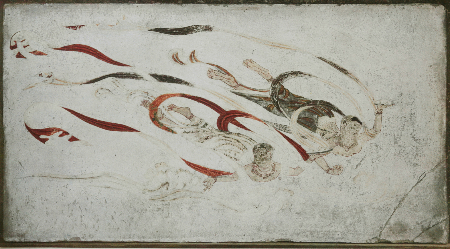 One panel of wall paintings in Kondo in Horyuji, Color on Fresco Secco. Now. parted and moved to storehouse. 75cm height 138cm wide, early 7th century, Nara-period, Horyuji, Nara, Japan.